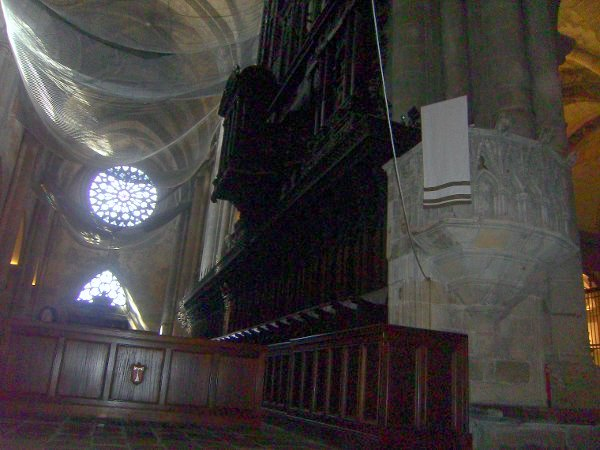 Restoration of the Cathedral of Tarragona.